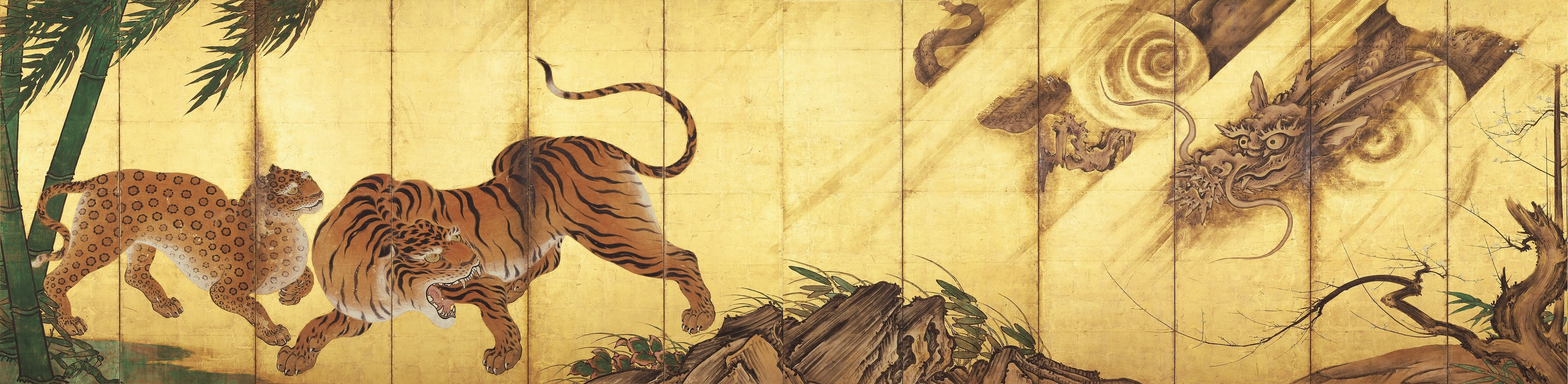 Folding screen with painting of dragon and tiger. Myoshinji-temple. Important Cultural Properties of Japan